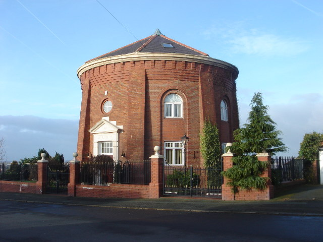 Water Tower, Snydle. A mid 19th century water tower on top of a hill near Westhoughton, called the Snydle. Now converted to a private residence.